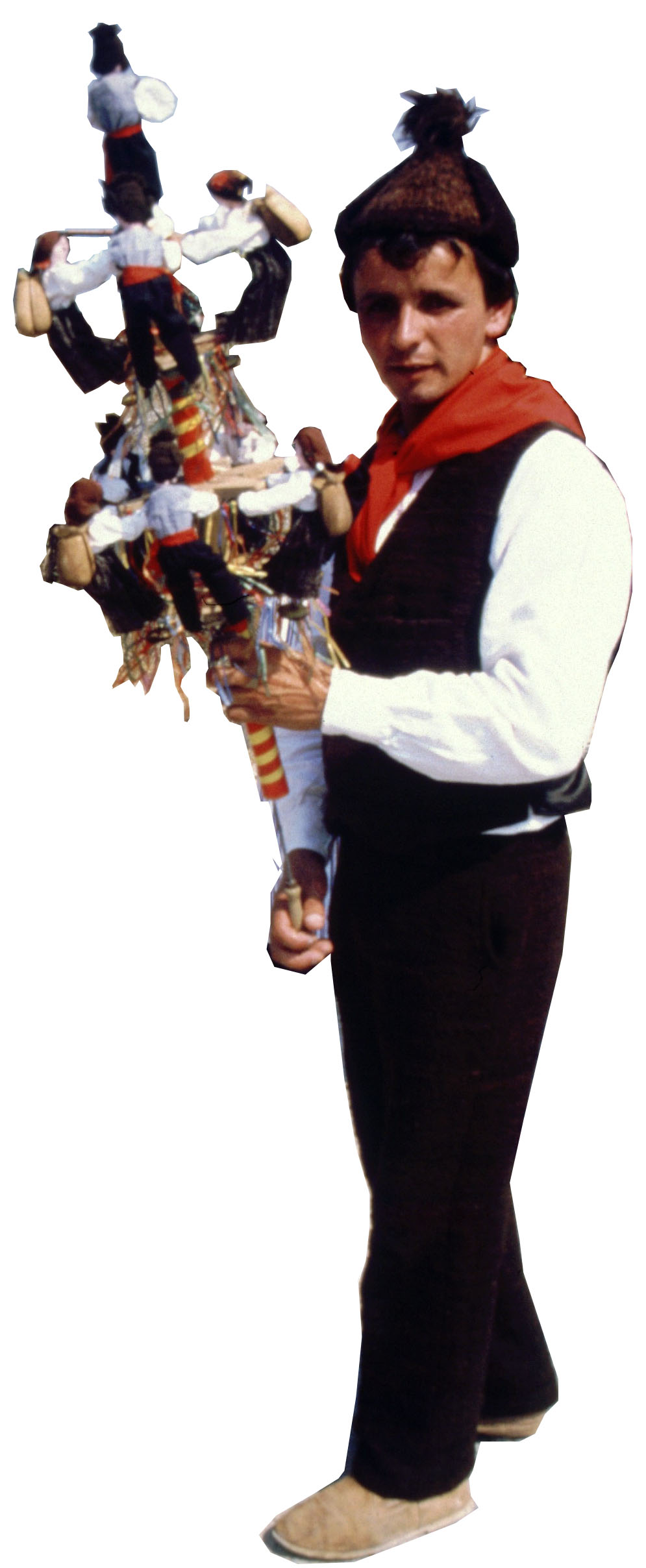 name: Player of Madeiran local percussion instrument made of junk material. source: Picture shot on local festival in Portugal in 1989